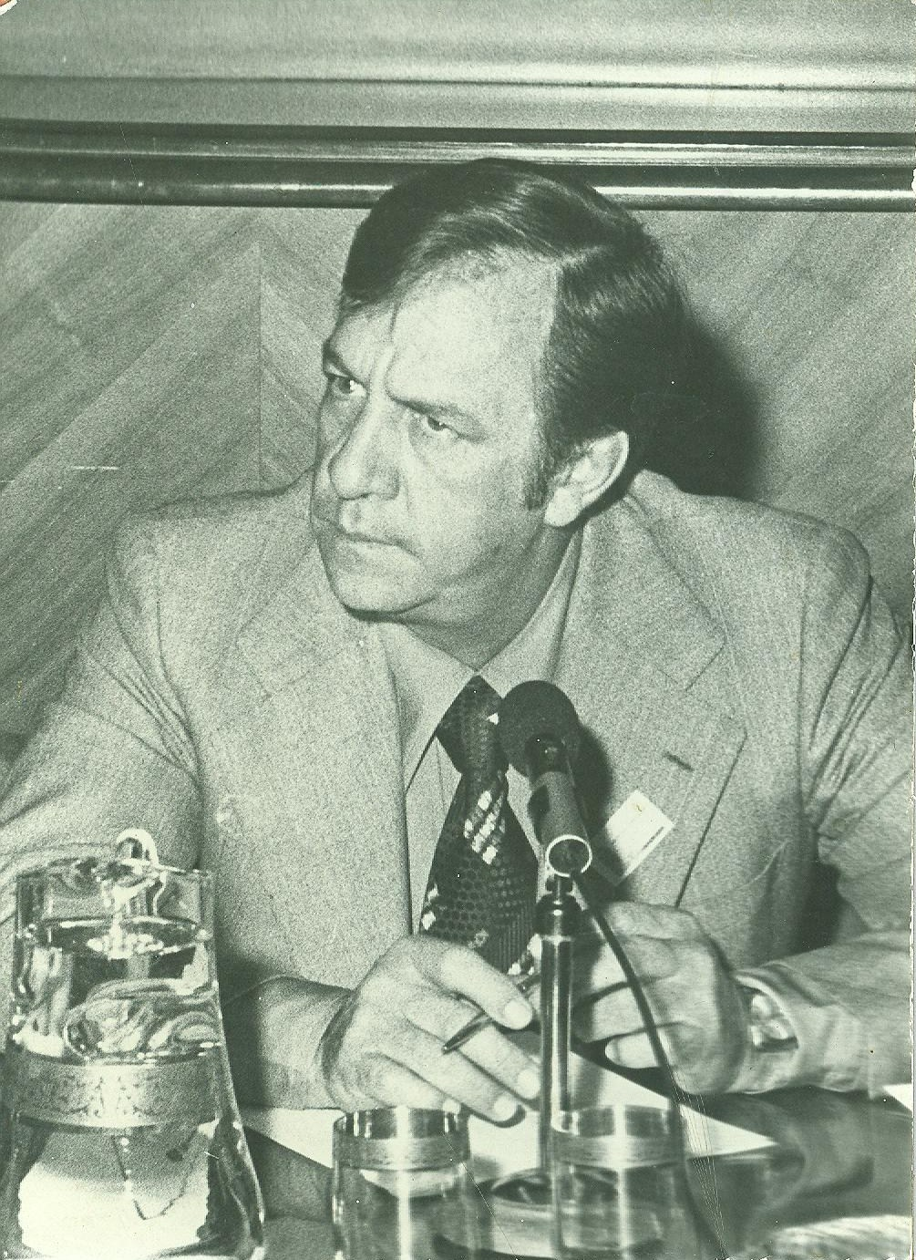 Press Conference of the Secretariat of Organization of the National Executive Committee (PRI)